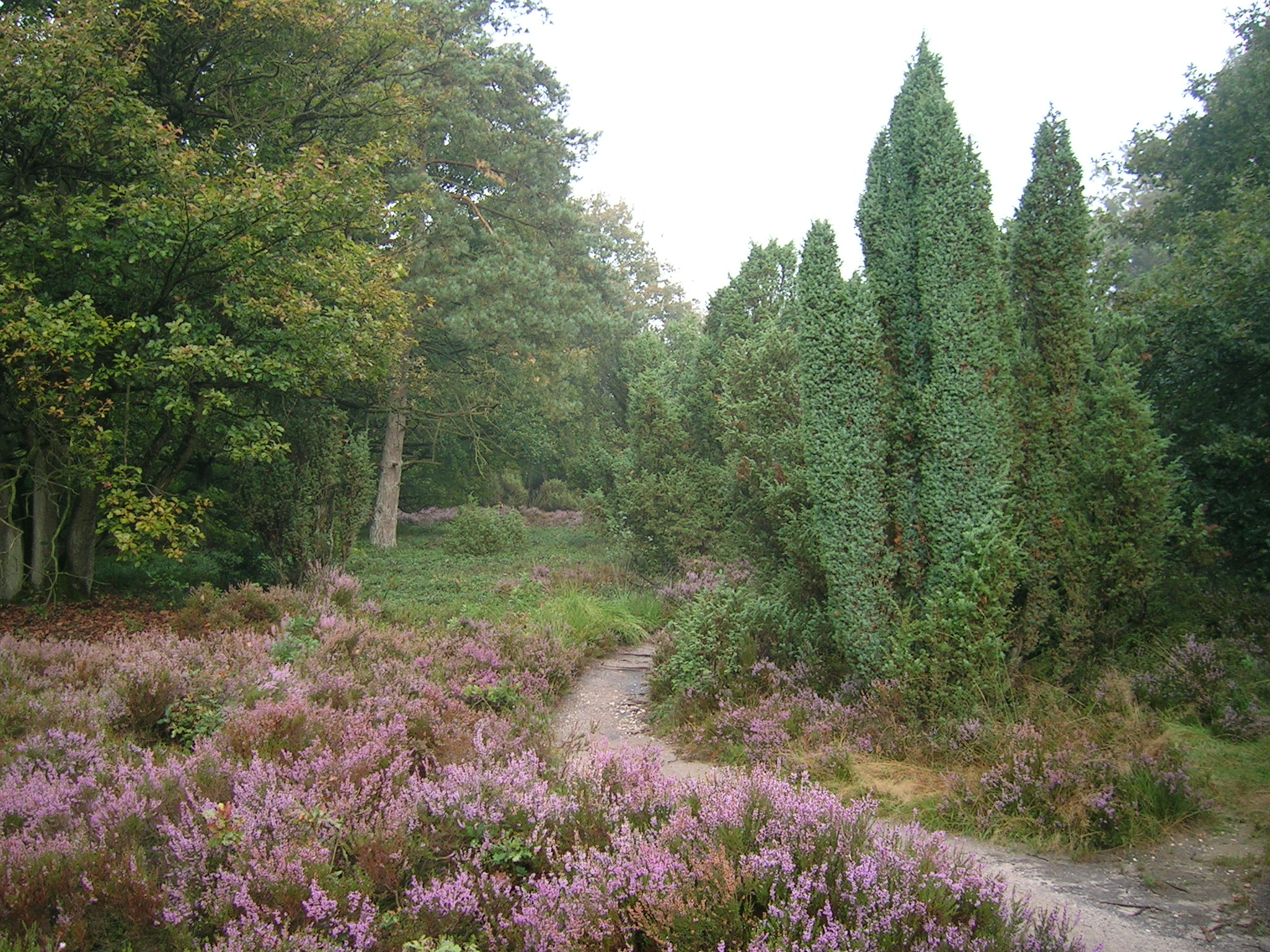 Pieterpad near Laren (Gelderland)